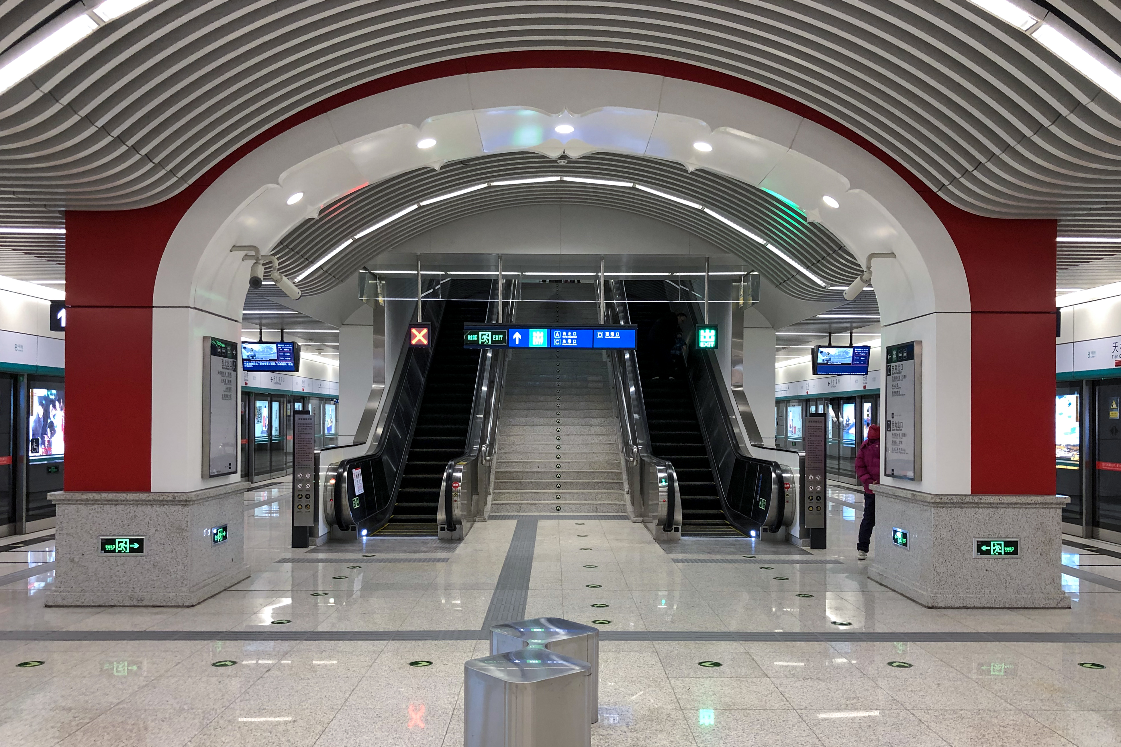 ...but the platform is only colorful on edges.